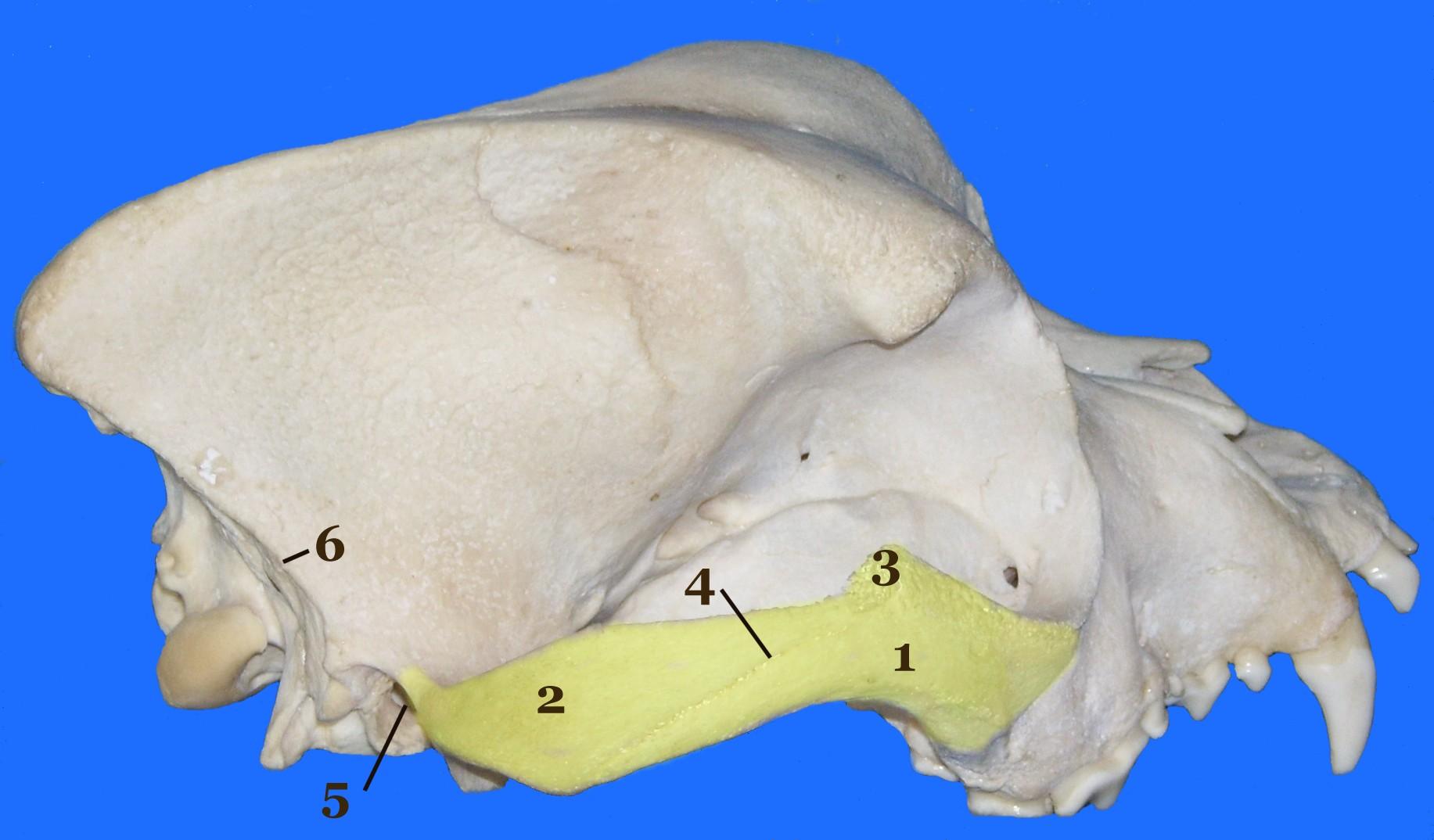 zygomatic arch of a dog (German Boxer)